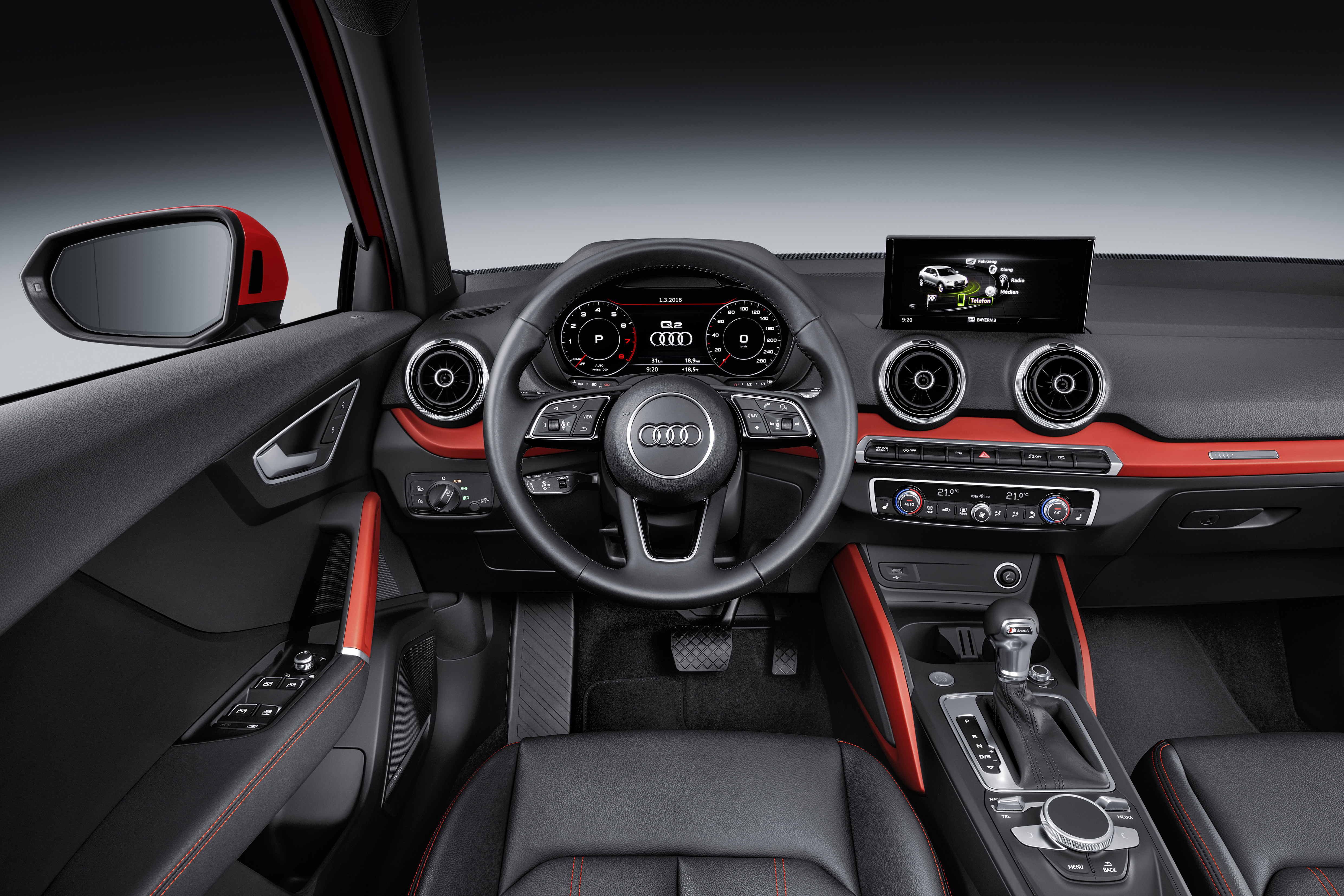 Cockpit